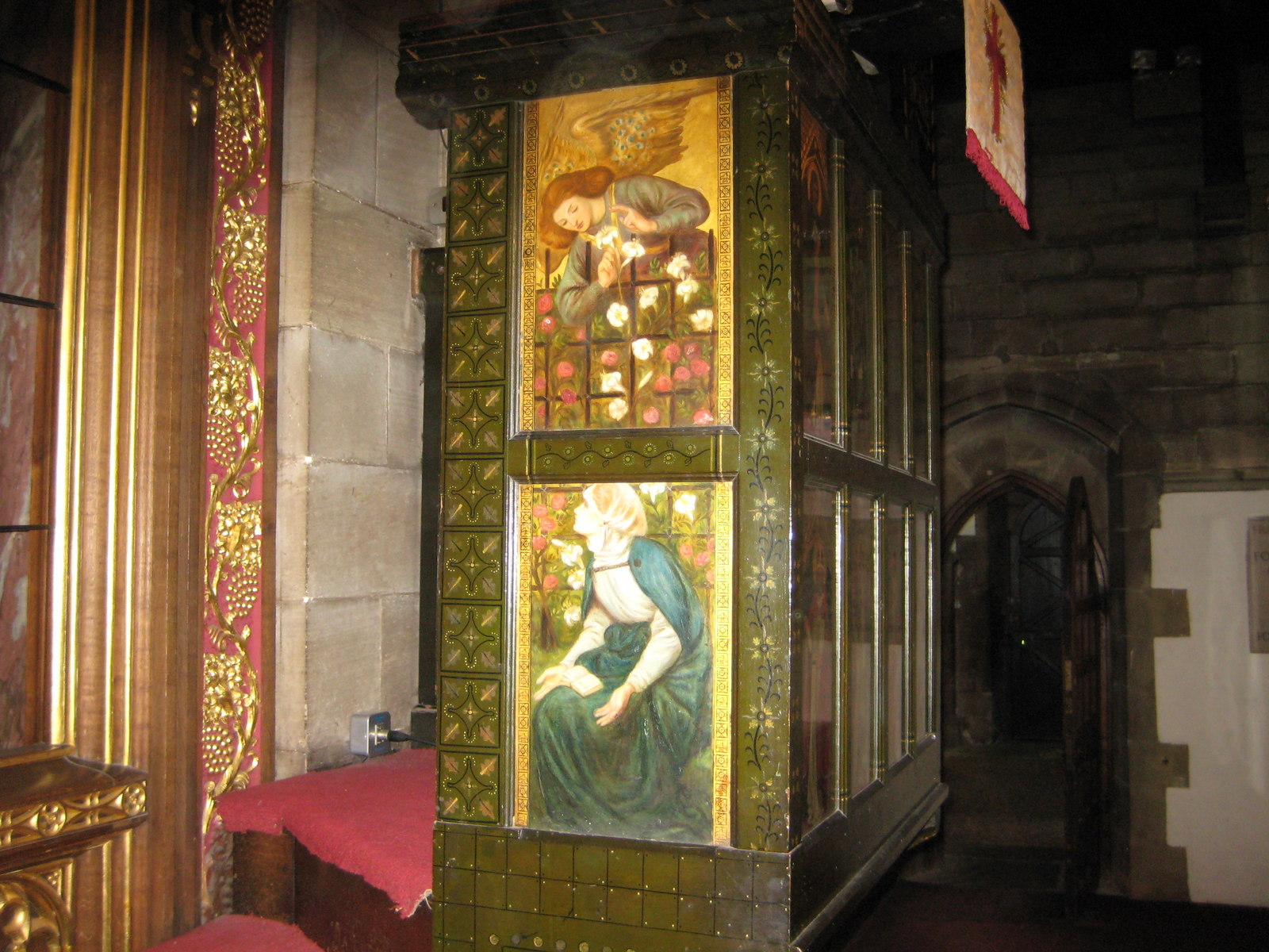 Painted panels by Dante Gabriel Rossetti depicting the Annunciation in St Martin's parish church, Albion Road, Scarborough, North Yorkshire, England